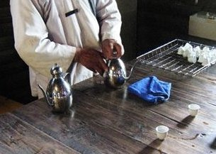 Jiuhu and zhongzi - traditonal utensils for Baijiu consumption